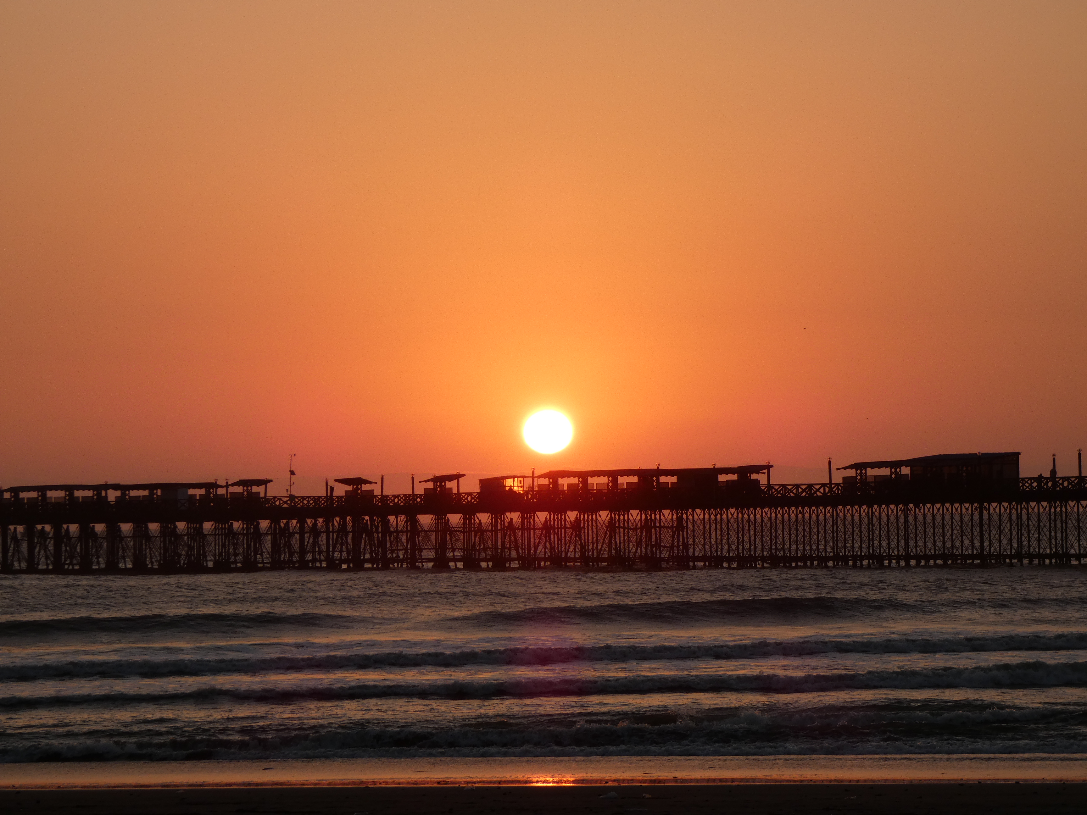 Sunset over the pier of Pimentel, Peru